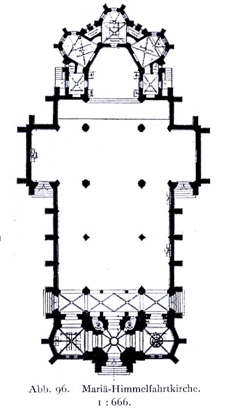 St. Mariä Himmelfahrtskirche in Düsseldorf-Flingern, 1890 bis 1892, Architekt Caspar Clemens Pickel, Grundriss.jpg